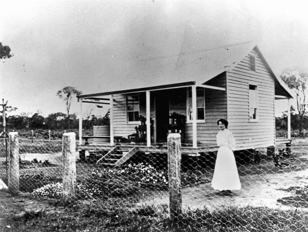 Blackwater State School, ca. 1900. The school opened in 1887.